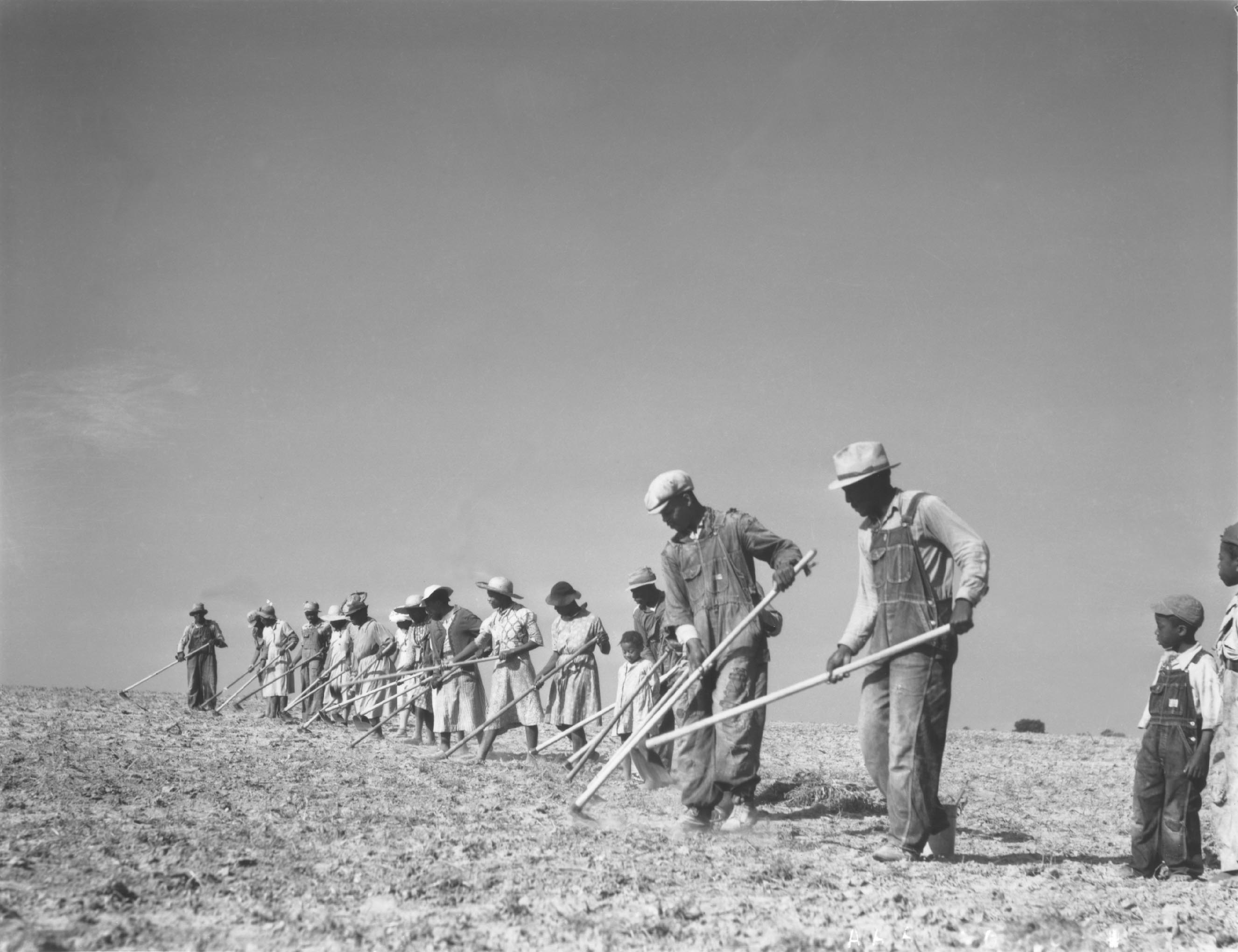 Negro farmer, Dave Lewis, owns this 575 acre farm in Macon County, Alabama on May 8, 1940.